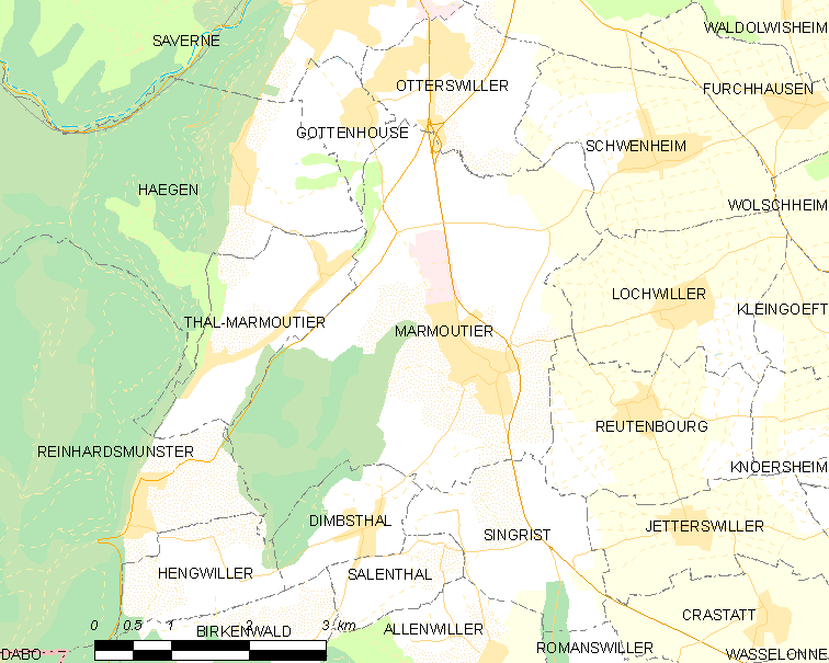 Map of French municipality